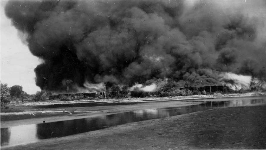 Fire at the sawmill at the Snye, Chenail Island on the Ottawa River, Ontario, Canada.